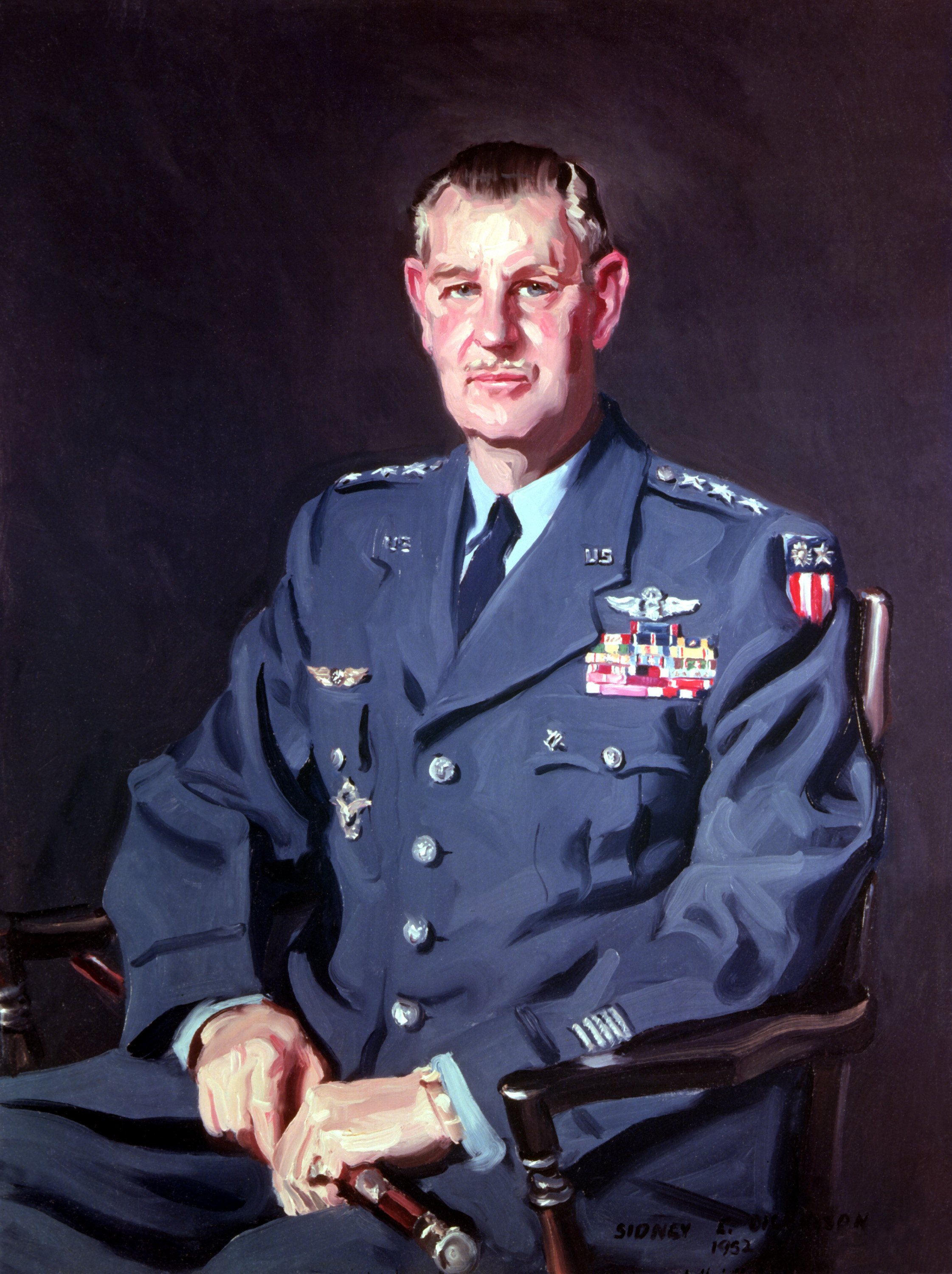 Artwork: "Lt. Gen. George E. Stratemeyer" Artist: Sidney Dickinson